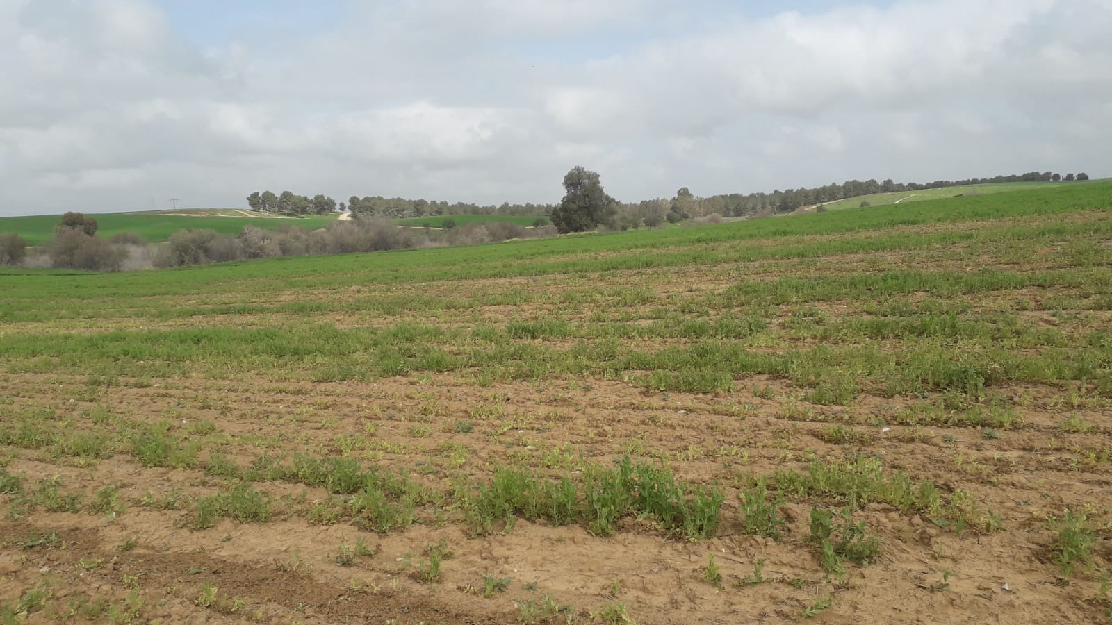 PURA RESERVE